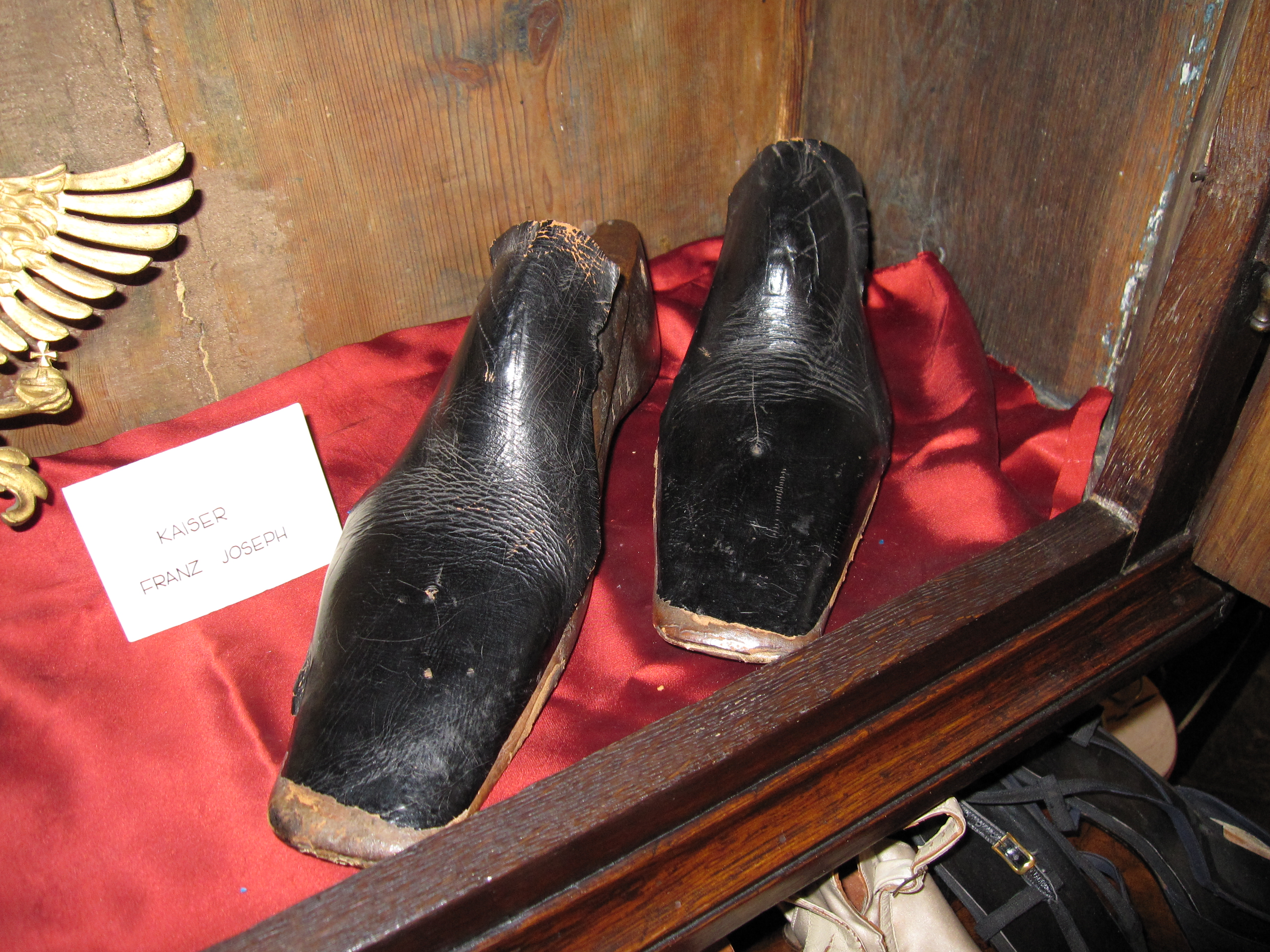 Shoe last of emperor Franz Joseph I., at Rudolf Scheer & Söhne in Vienna's I. district